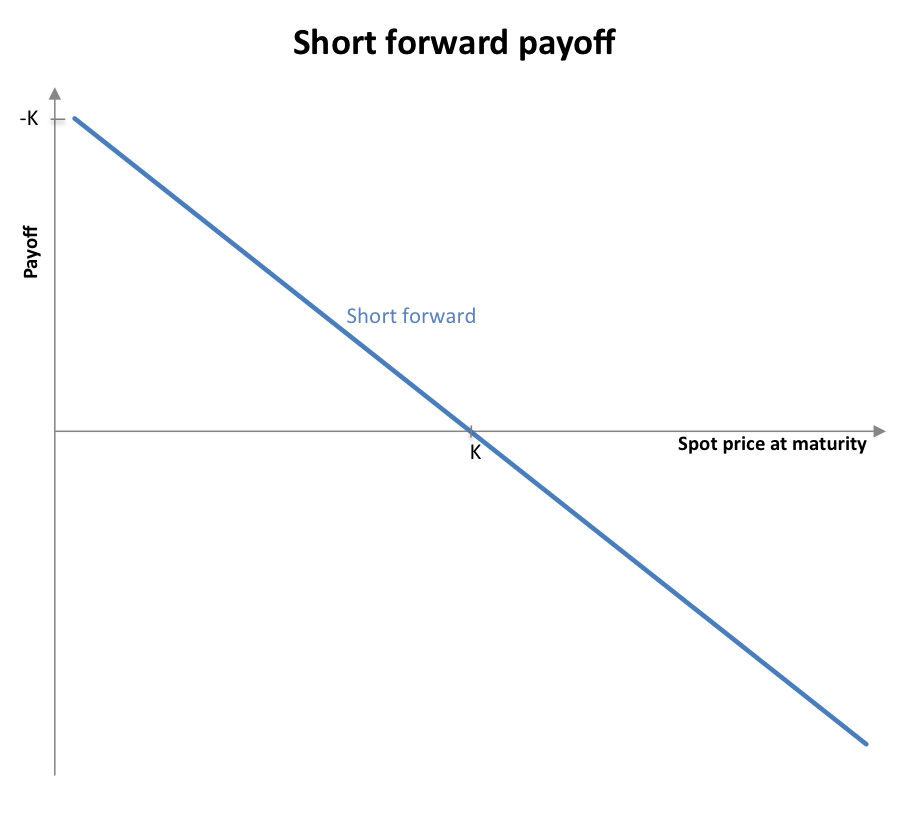 payoff diagram of a short position in a forward contract